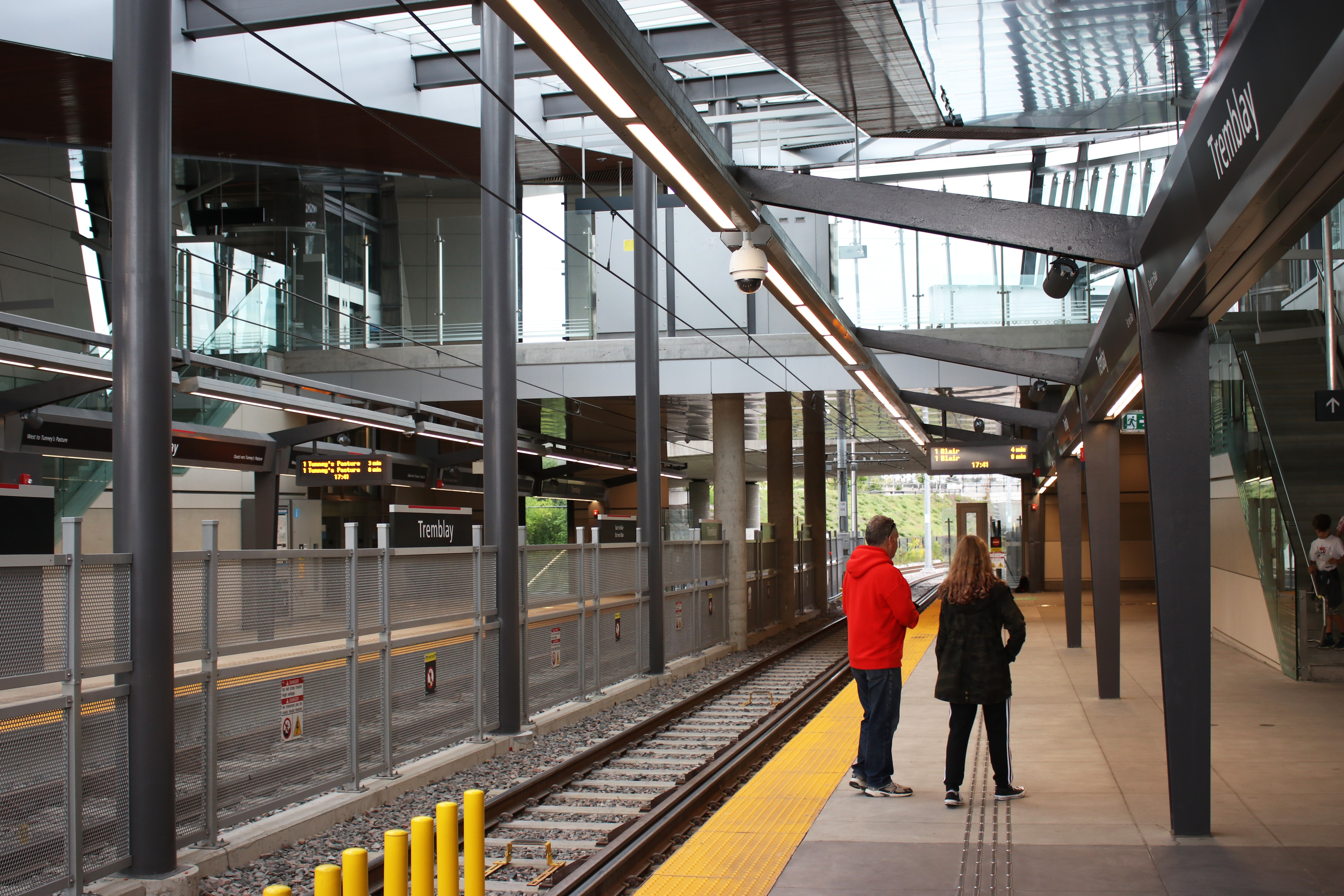 Platform at Tremblay Station, Formerly known as Train Station.